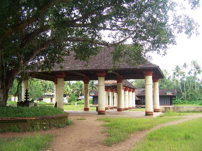 Chenthamangalam Kunnathurthali Siva Temple